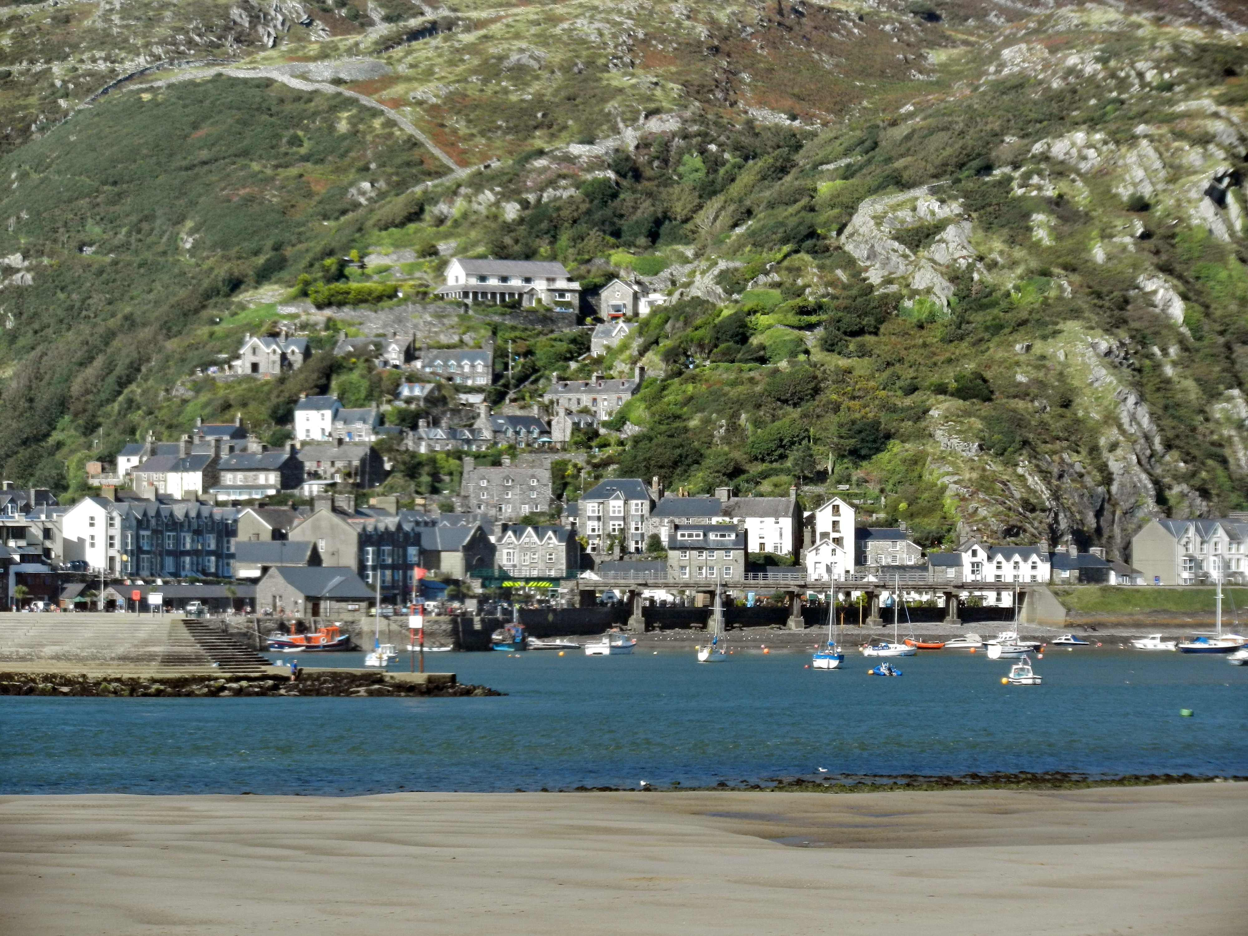 Barmouth